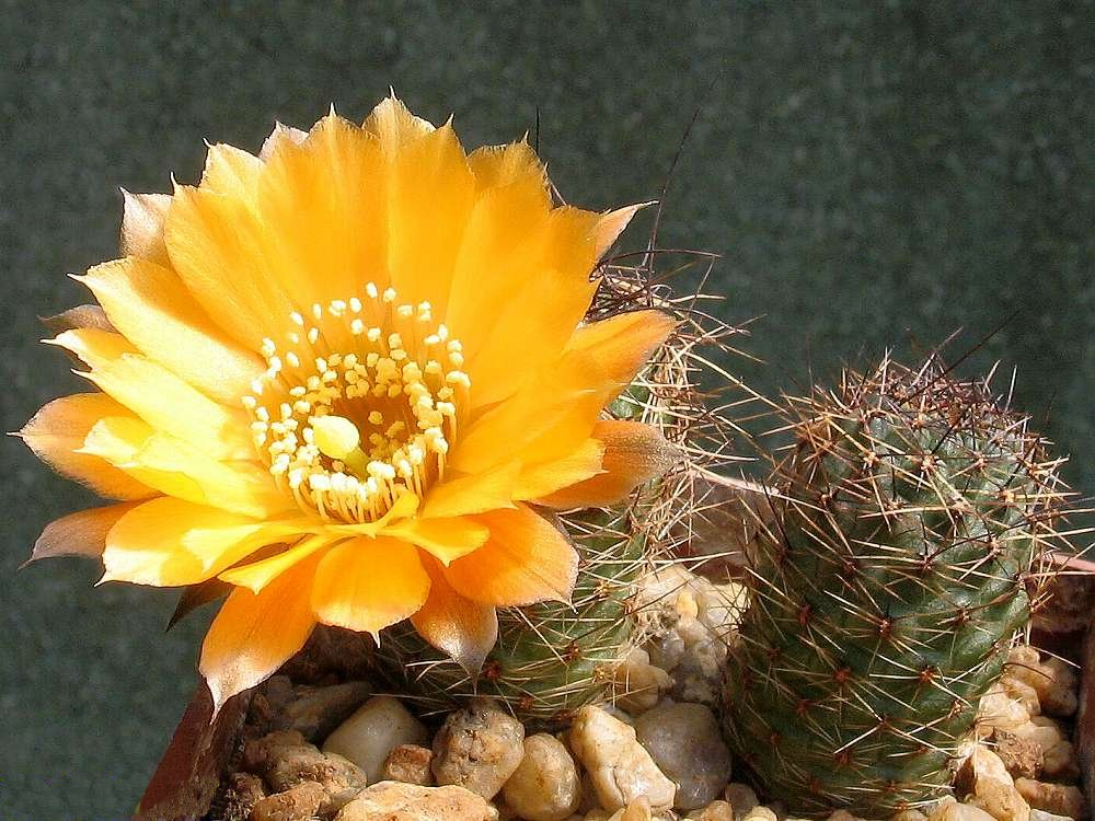 Rebutia einsteinii Frič - cultivated plant (seed marked LF55A) from own collection.